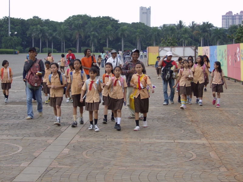 Scouts at Monas